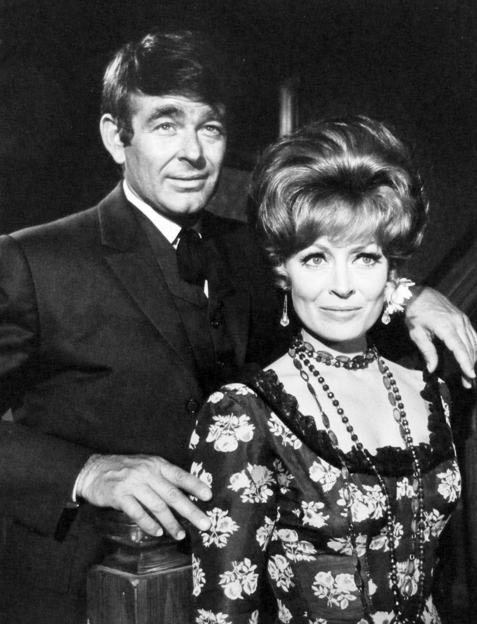 Photo of Stuart Whitman as Jim Crown and guest star Victoria Shaw (once Mrs. Roger Smith) from the television program Cimarron Strip.